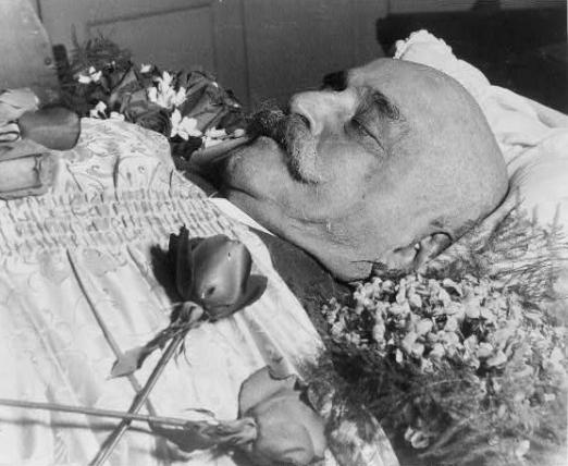 Gurdjieff, Georges Ivanovitch, 1872-1949--Death & burial--France--Paris. Lying in state--1940-1950 DIGITAL ID:(b&w film copy neg.) cph 3c12901 CARD #:95507003 CALL NUMBER:LOT 13259, v. 21 no. 93a [P&P] Pop Art Machine Code: cph-3c10000-3c12000-3c12900-3c12901